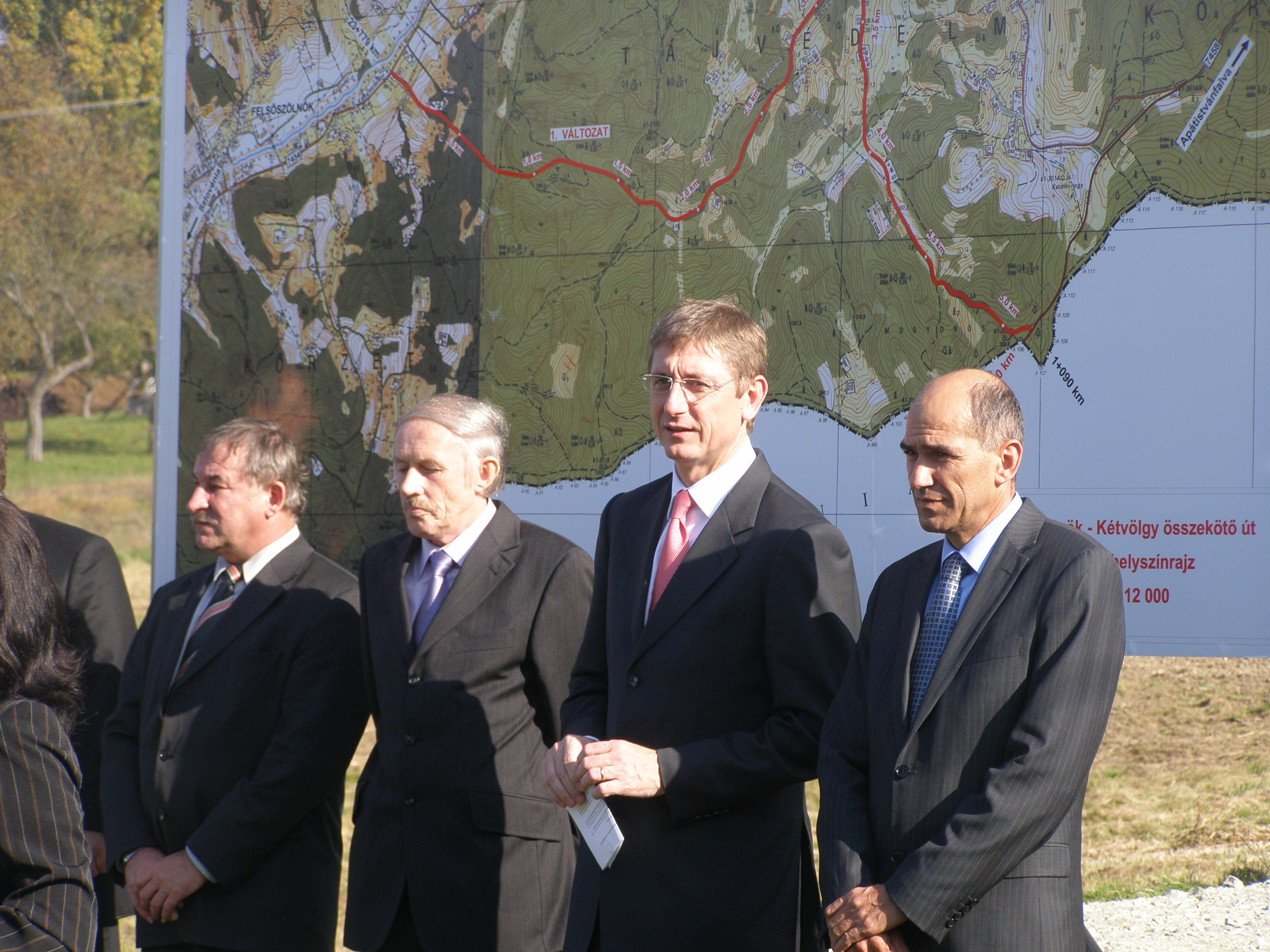 Ferenc Gyurcsány hungarian, and Janez Janša slovenian president in Felsőszölnök (near Hungarian-slovenian border). The foot-stone deposition of the Kétvölgy-Felsőszölnök by-pass